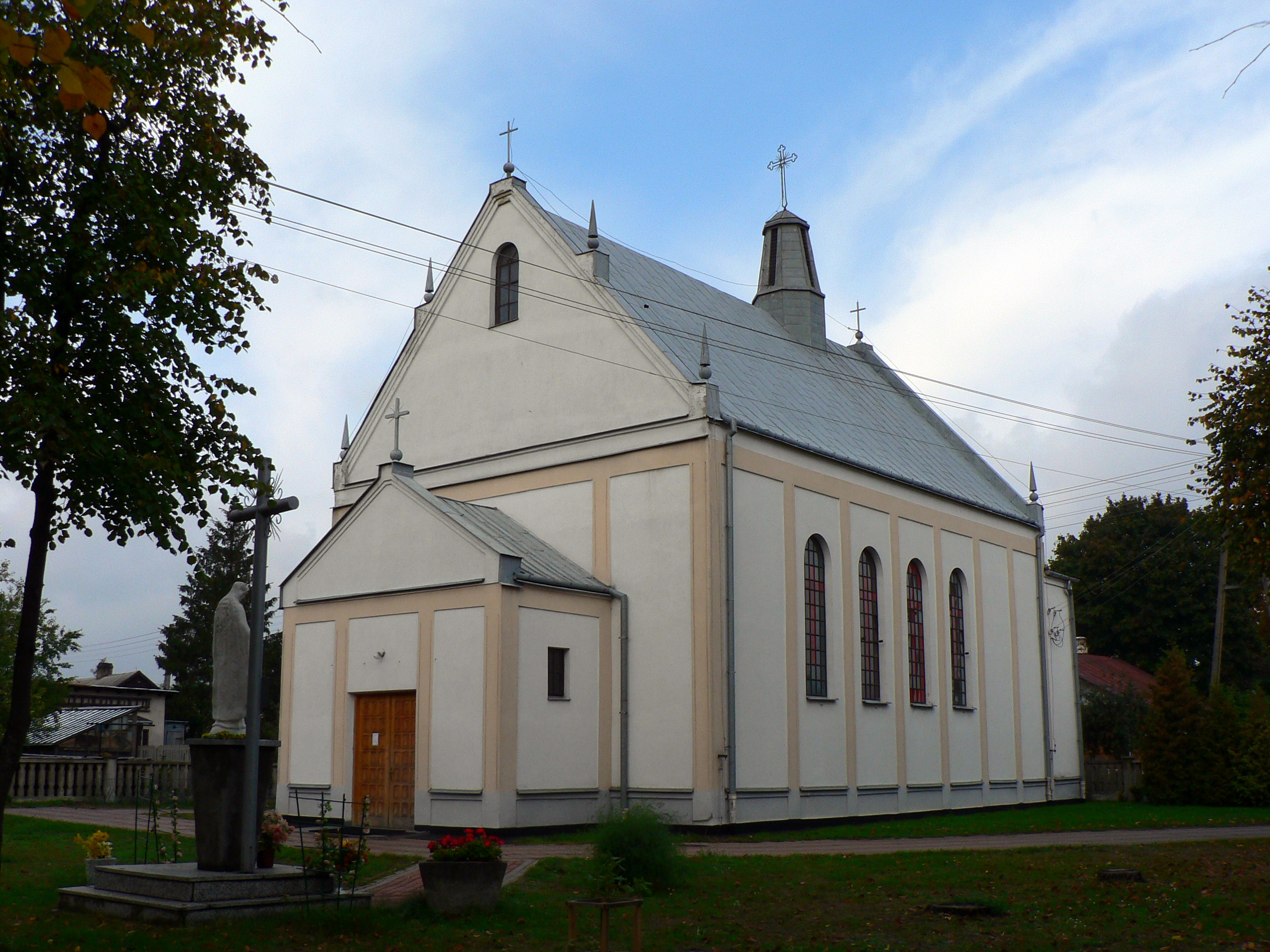 Virgin Mary Queen of Poland catholic church in Czeremcha, Poland